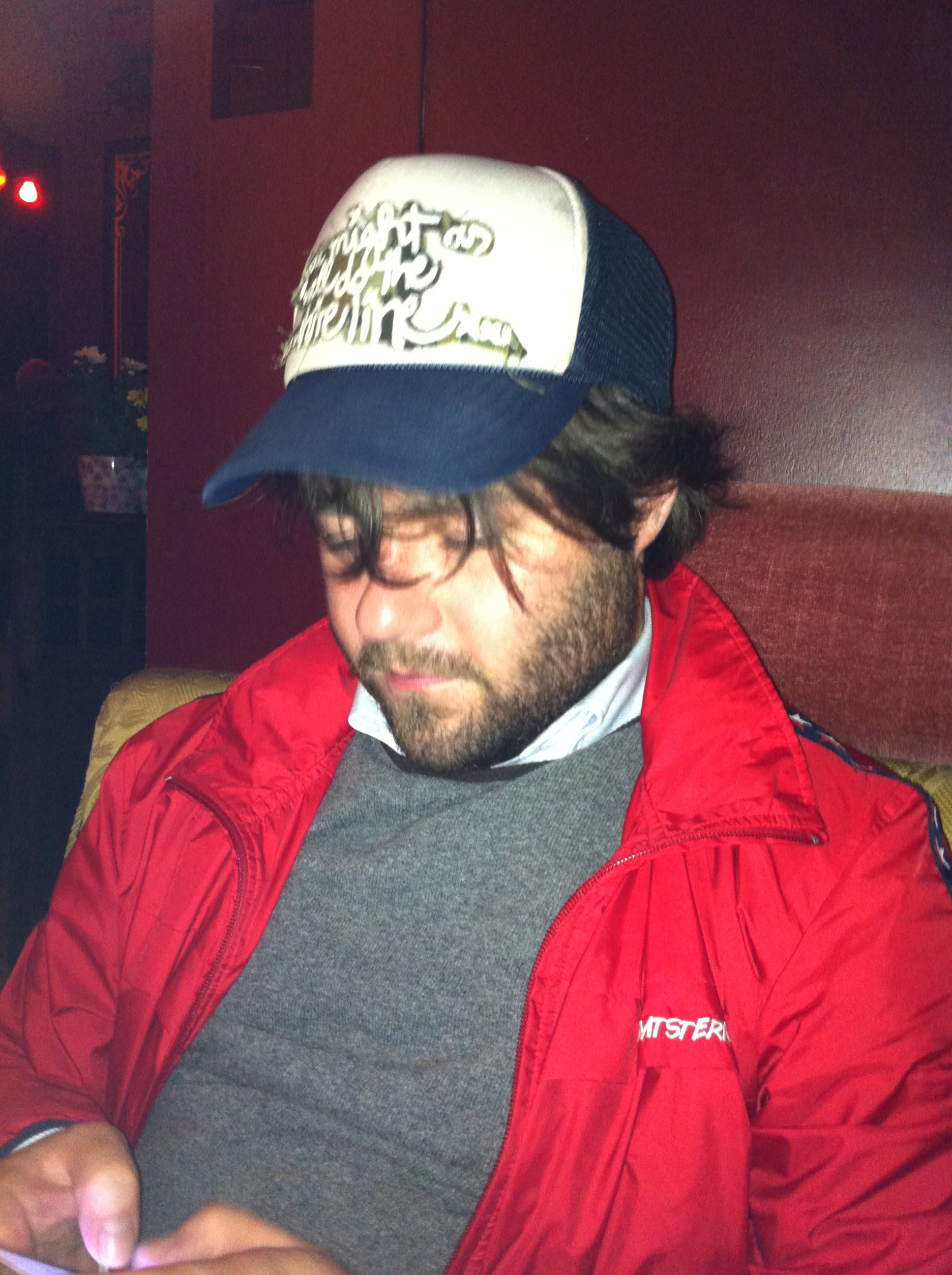 Fjodor Olev in Berlin (2011)